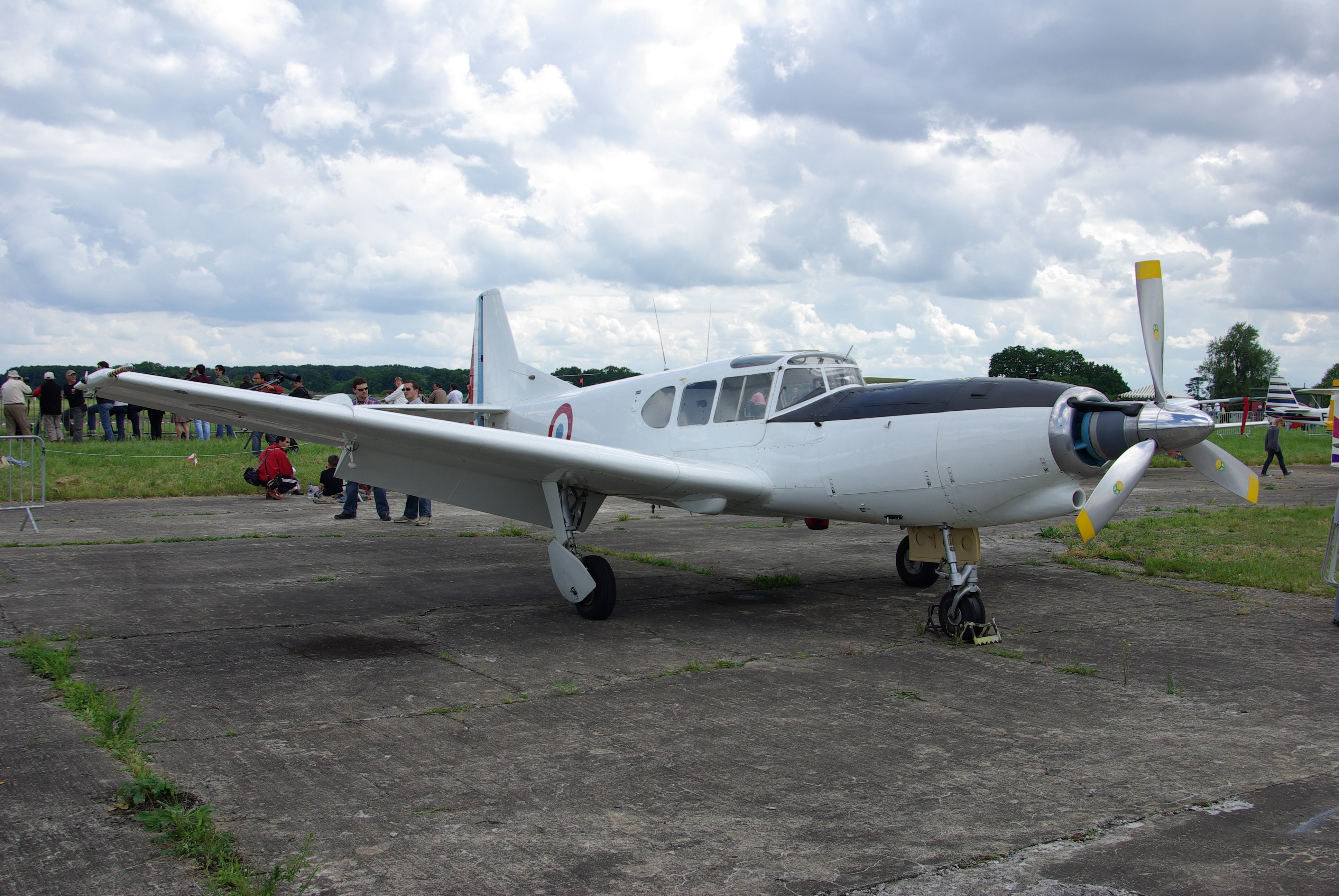 A Nord 1110 at Tours